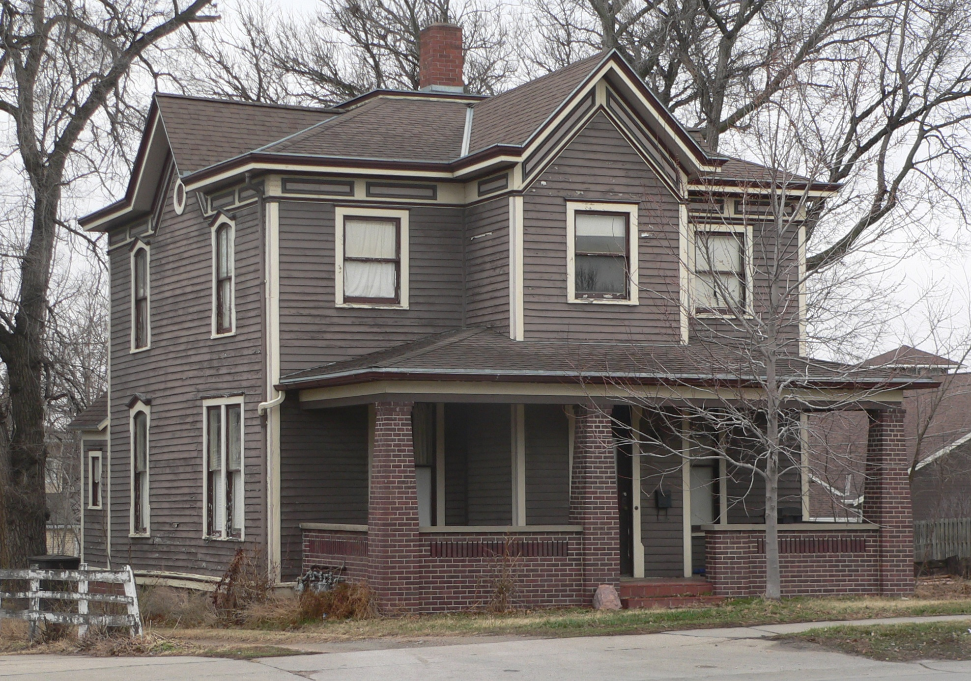 Guy A. Brown house, located at 219-221 S. 27th Street in Lincoln, Nebraska; seen from the southeast.